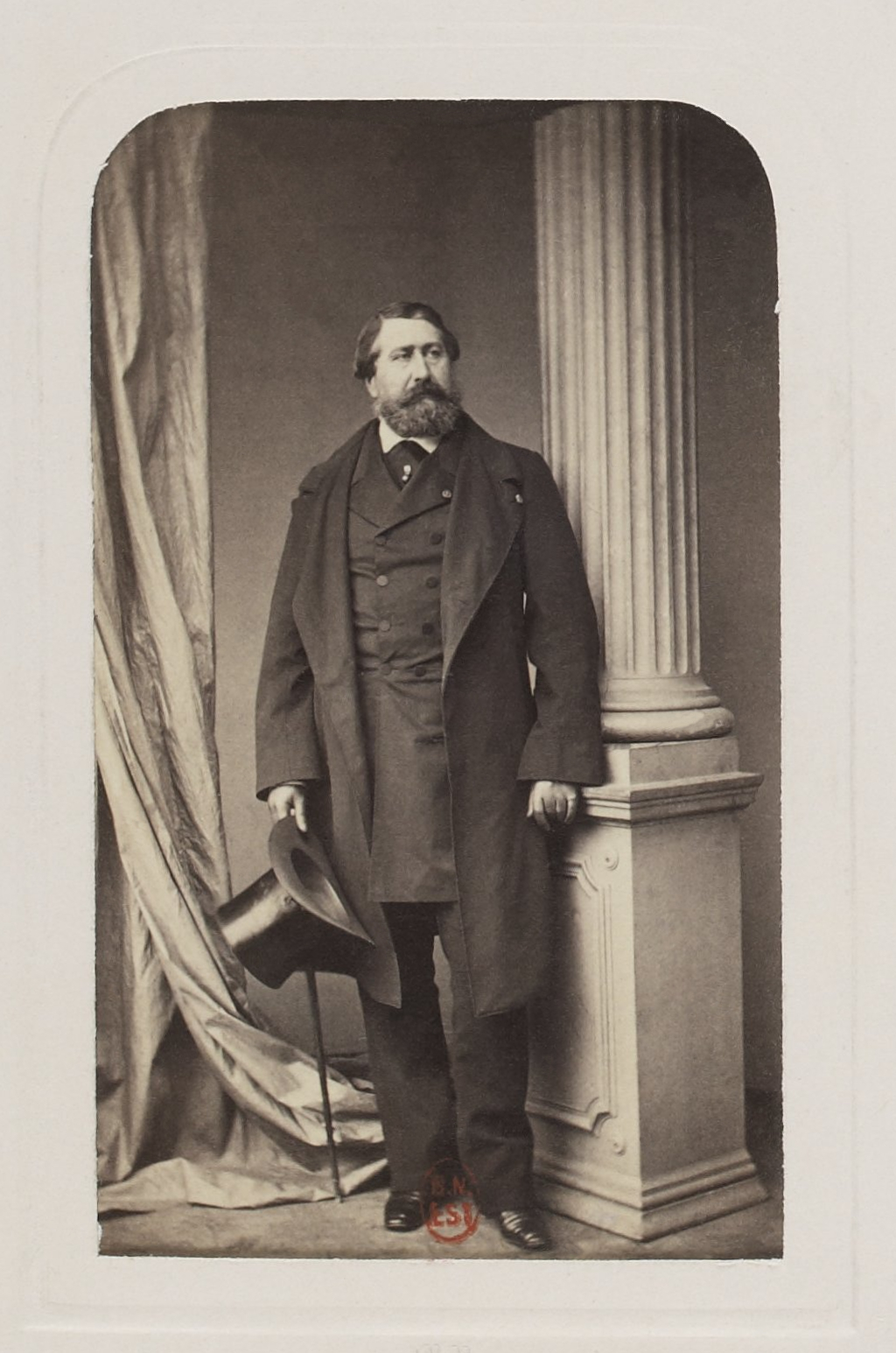 Émilien de Nieuwerkerke (1811-1892), french sculptor and a high-level civil servant in the Second French Empire.